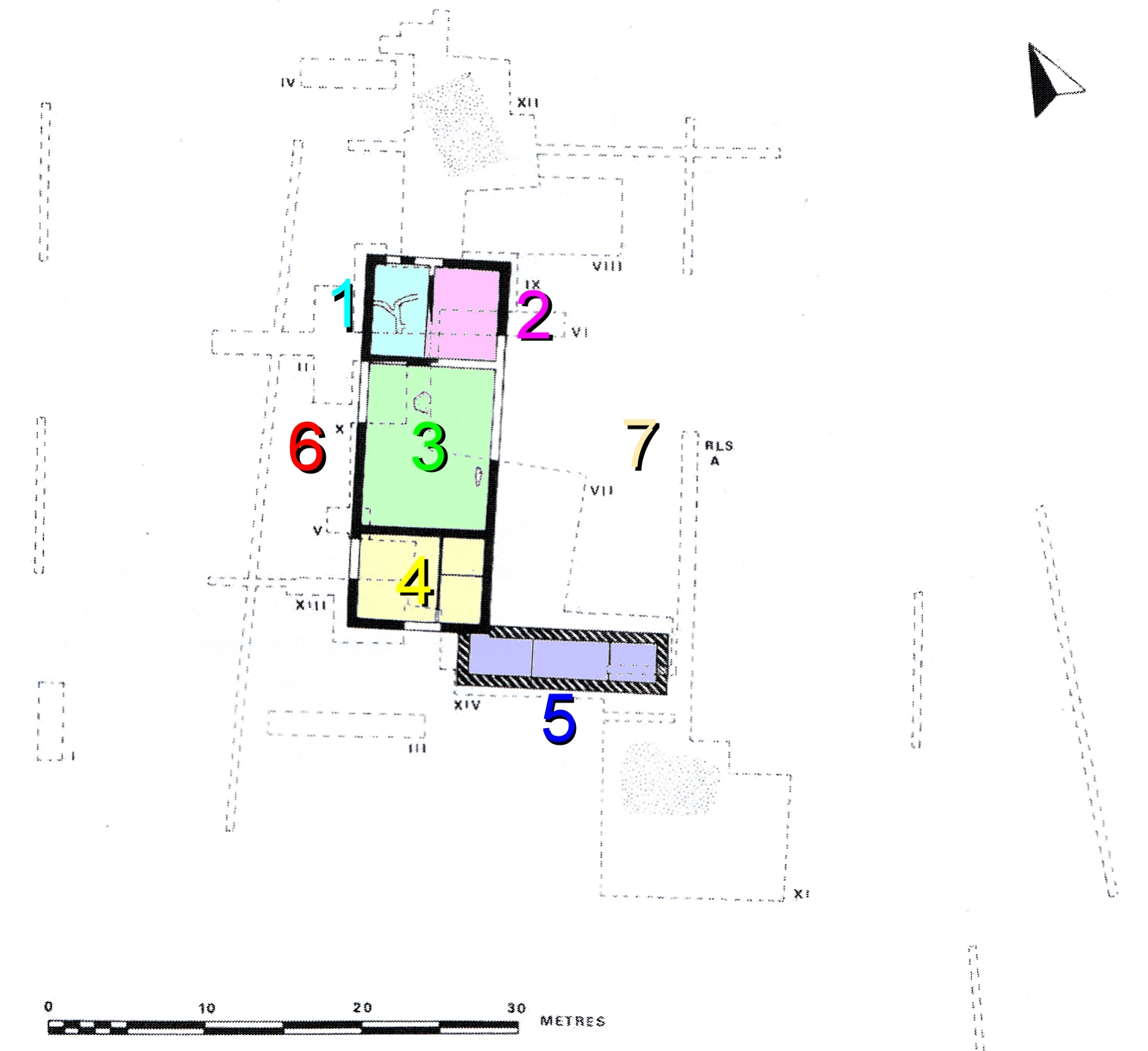 The floorplan of the villa at Carsington by Wirksworth